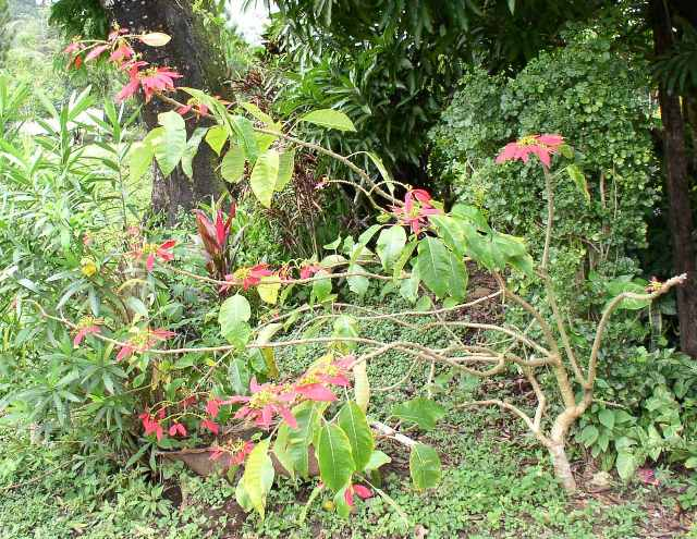 Poinsettia bush belize